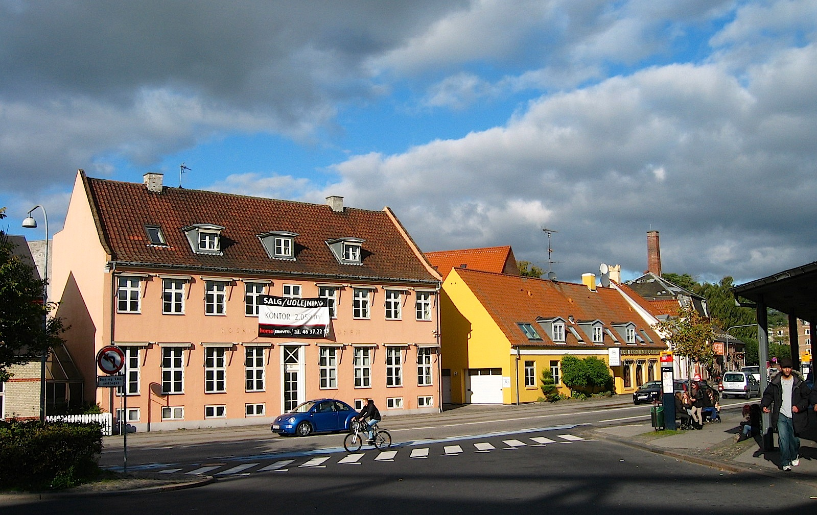 Roskilde, Denmark. Part of the town around the railway station at Jernbanegade St.